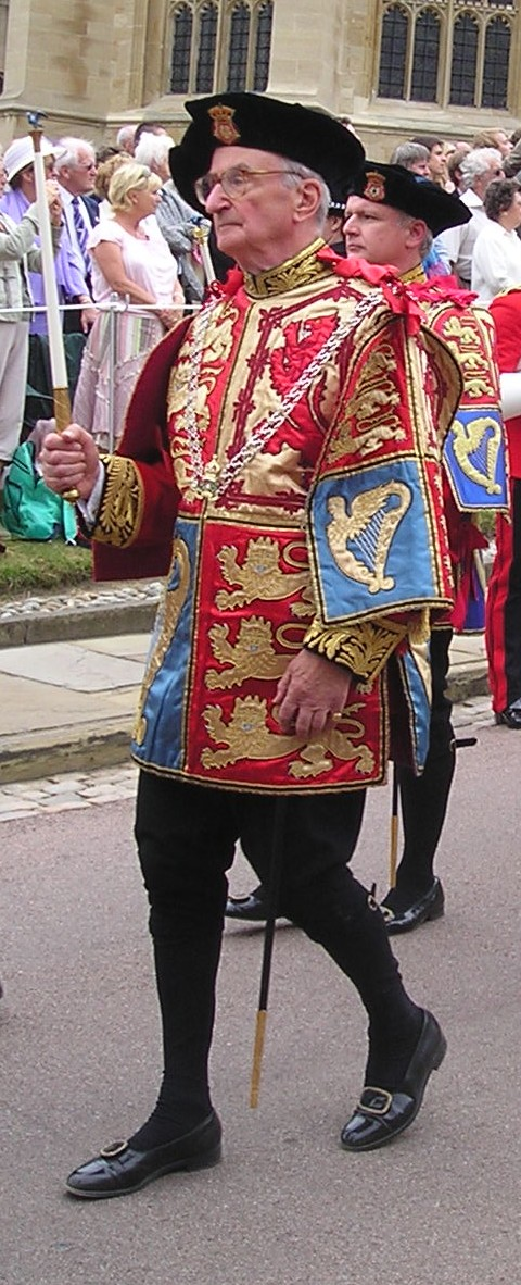 Michael Siddons, Wales Herald Extraordinary, in procession to St George's Chapel, Windsor Castle for the annual service of the Order of the Garter.